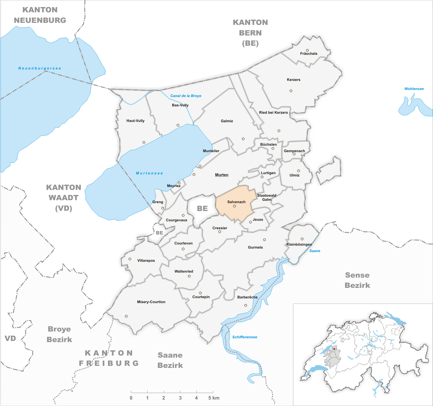 Municipality Salvenach